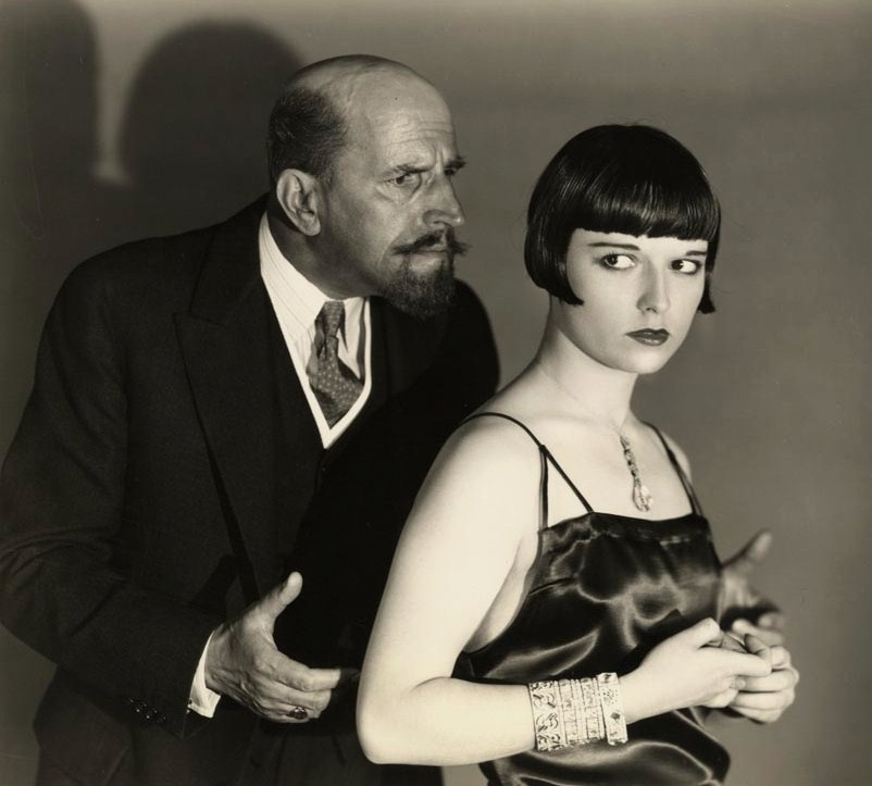 Gustav von Seyffertitz and Louise Brooks in The Canary Murder Case - publicity still (cropped : see source)